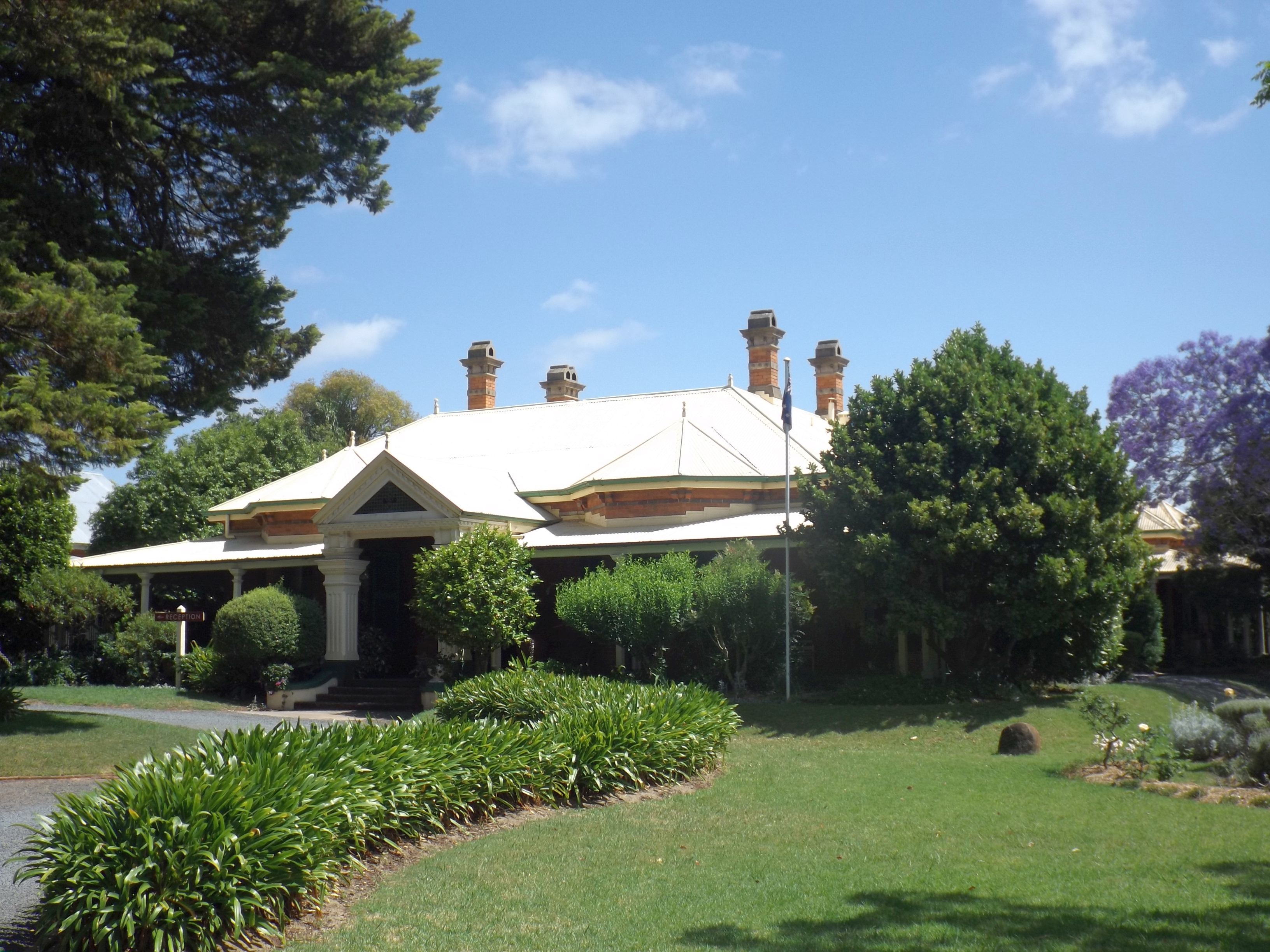 Photo of Vacy Hall in Toowoomba City, Queensland, Australia.